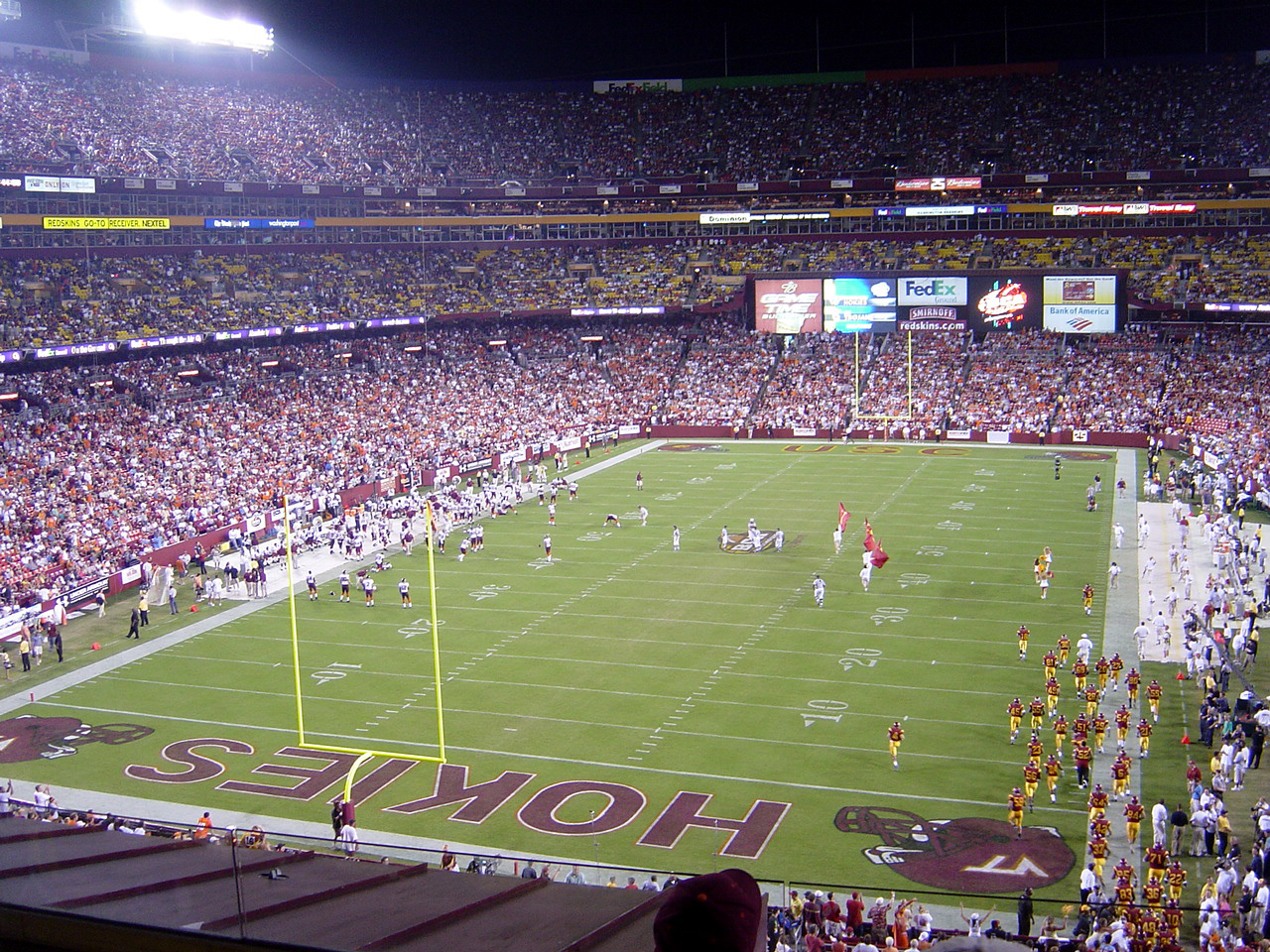 FedEx Field, Landover, Maryland during the 2004 BCA Classic between the Virginia Tech Hokies and USC Trojans. Photo taken by Bobak Ha'Eri, August 28, 2004. Please observe license and properly cite in use outside Wikipedia. 19:40, 19 February 2006 . . Bobak . . 1280×960 (774,232 bytes)